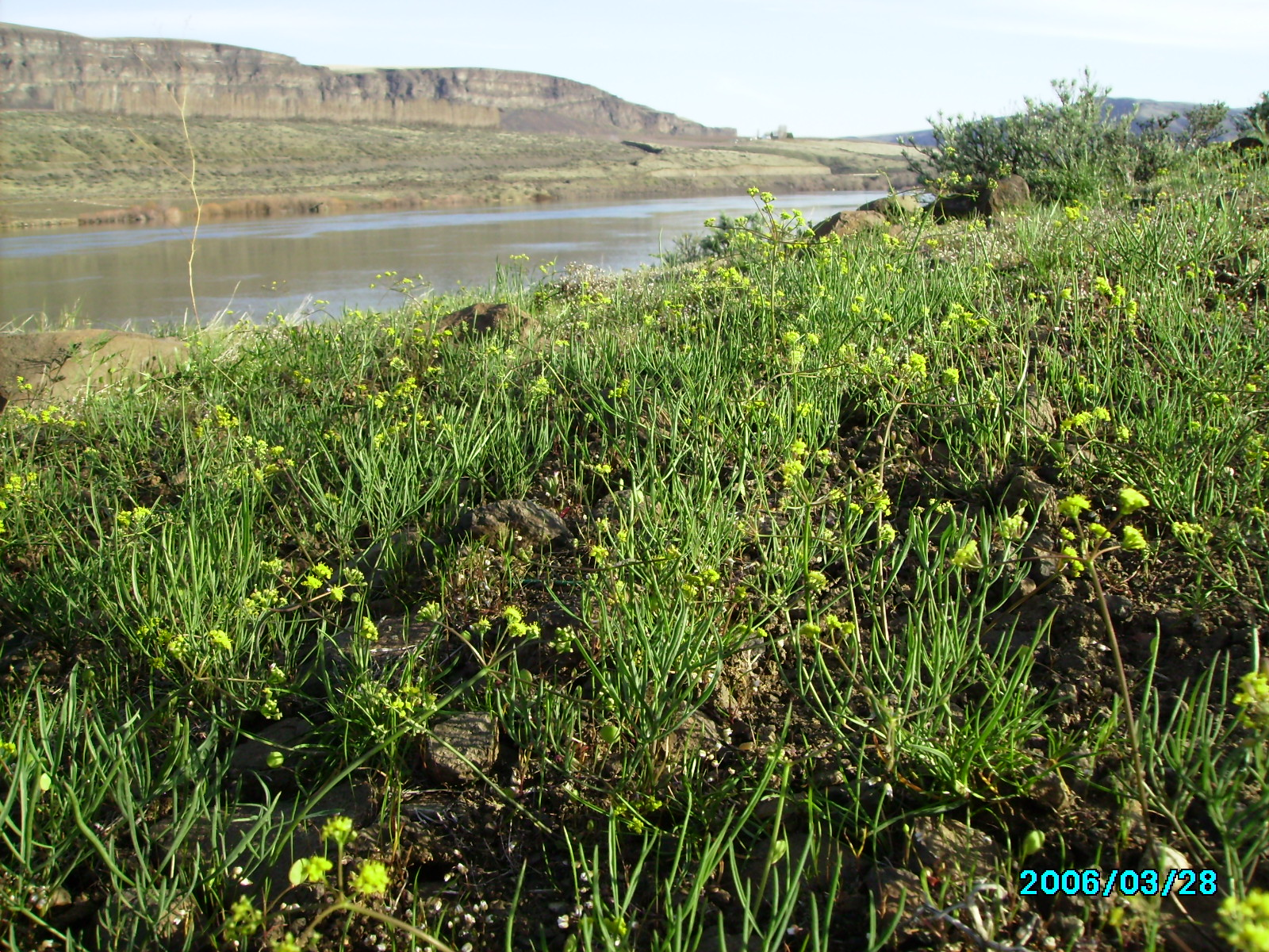 Lomatium farinosum var. hambleniae at Colockum Wildlife Area, Chelan County Washington. In recent years there has been a lot of OHV traffic in this area and it is where the state itself also staged a lot of its material for a recent shoreline restoration project, so there are far fewer plants and a less spectacular bloom, though other areas nearby are relatively unaffected.